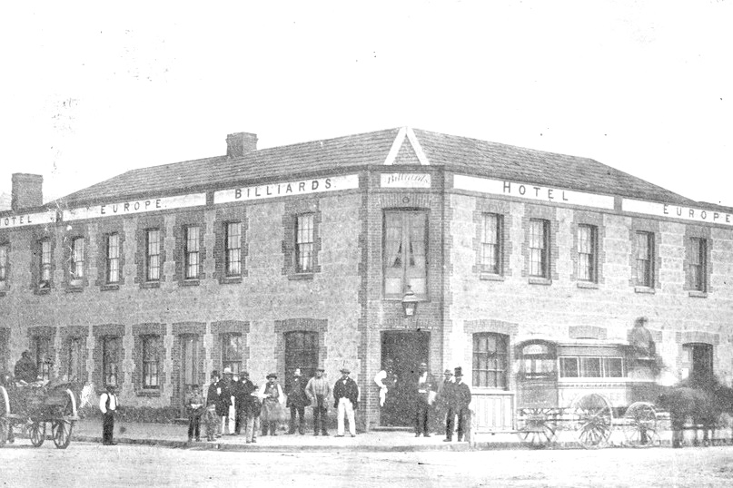 A two-storey hotel in Adelaide patronised by German settlers